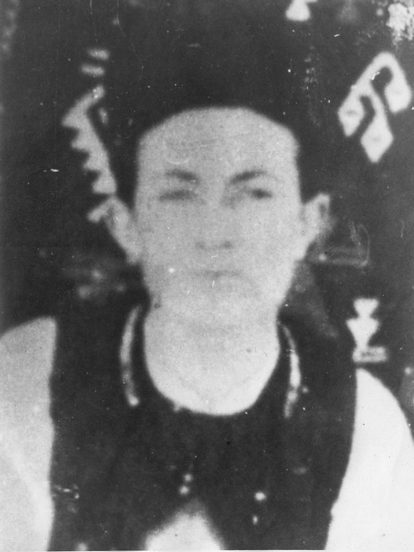 National hero of Yugoslavia Српски (ћирилица): Народни херој Југославије